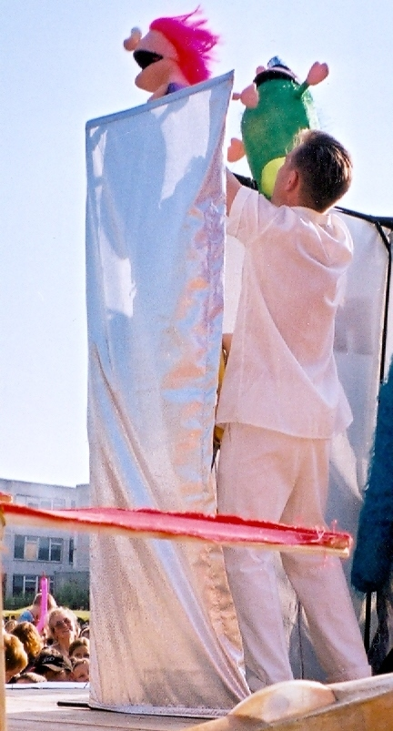 Nikolai Zykov with hand puppets, Russia. Nikolai Zykov - Soviet and Russian actor, director, artist, designer, puppet-maker, master puppeteer, author of over 20 puppet performances. Nikolai Zykov has created and has made over 80 puppet vignettes with participation of marionettes, hand, rod, giant, radio-controlled and experimental puppets. Nikolai Zykov has performed in 35 countries around the world.